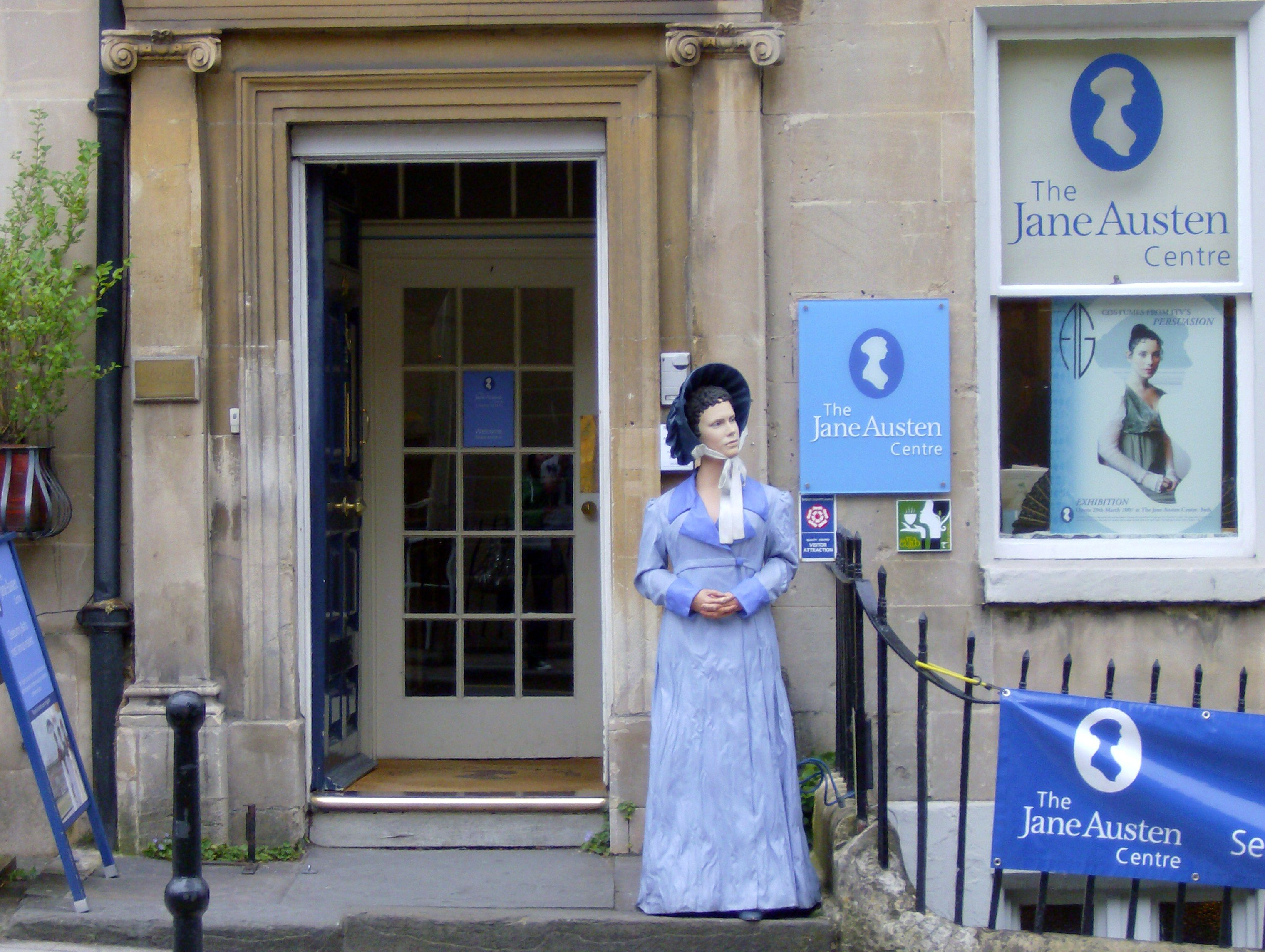 Description: Jane Austen Centre taken by me during my tour of Bath Source: Taken by uploader Date: 31 August 2007 Author: Fahdshariff